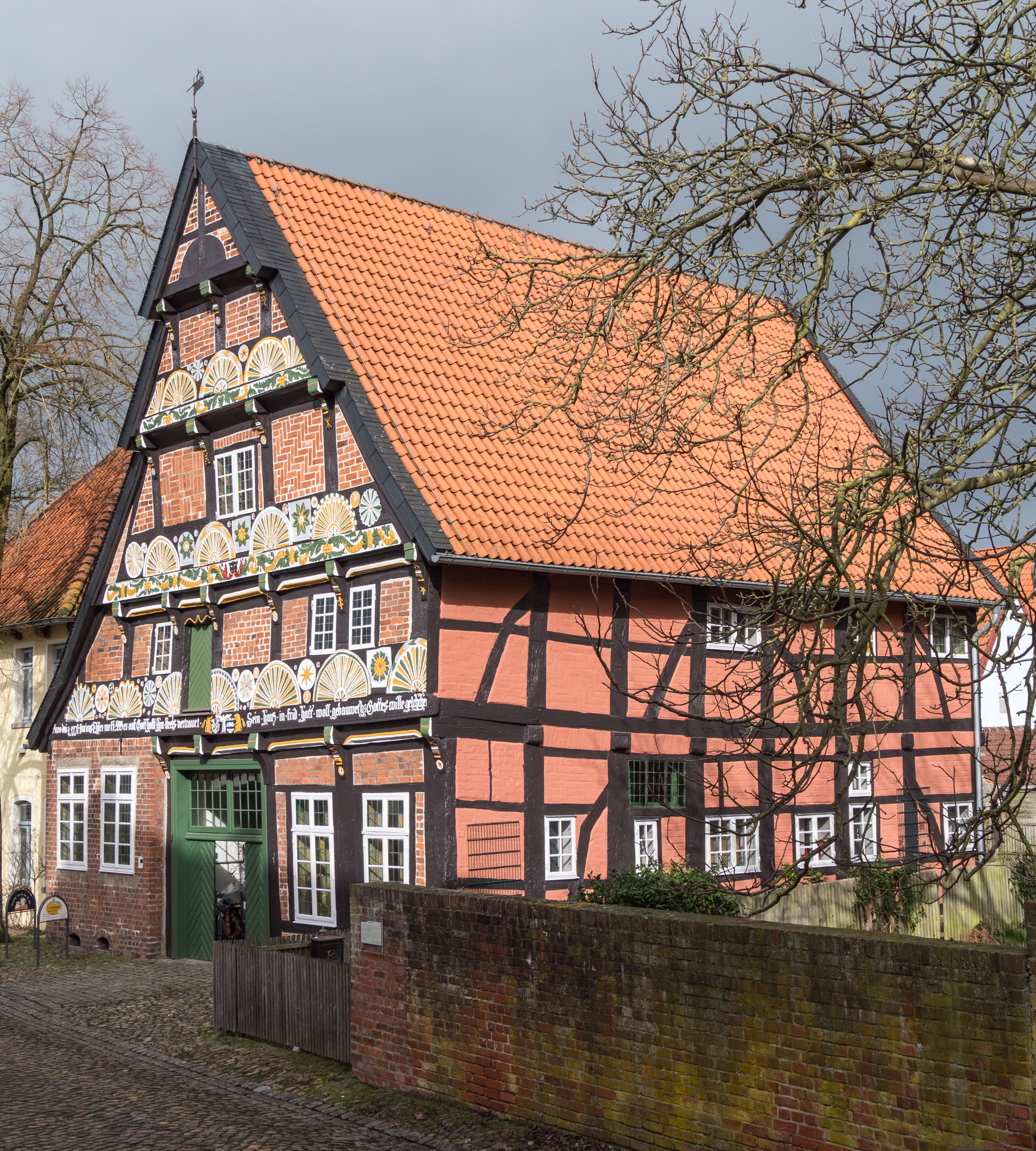 Timber framed brick house Strukturstraße 7 in Verden (Aller), built 1577.